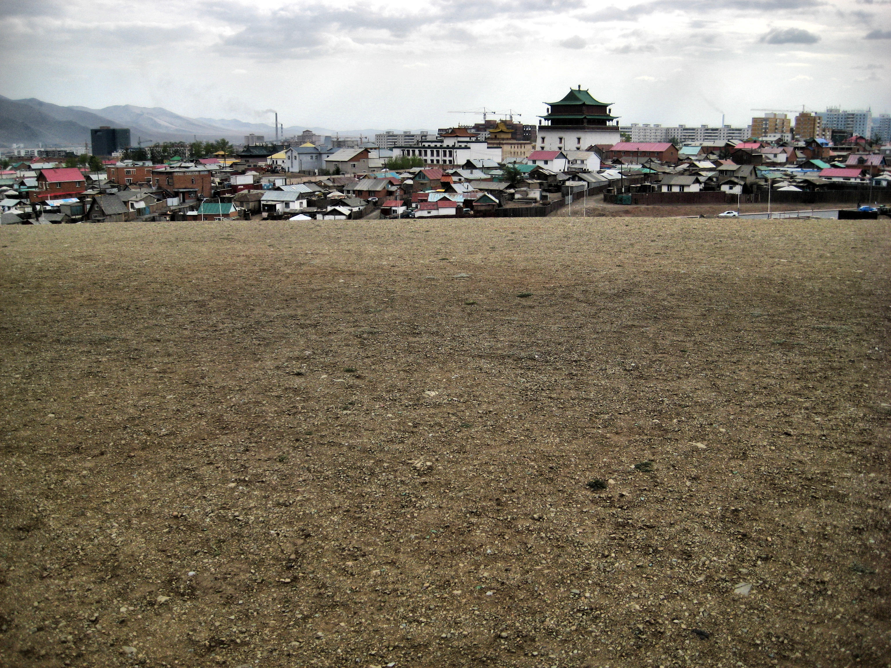 View from Geser temple